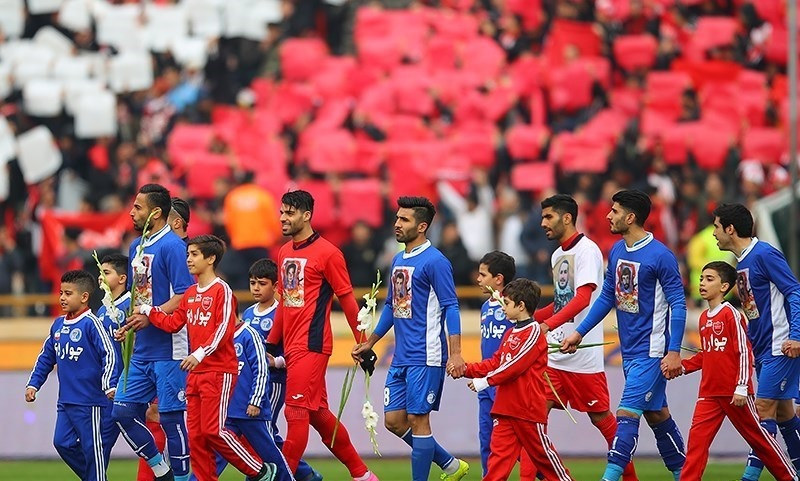 Tehran derby